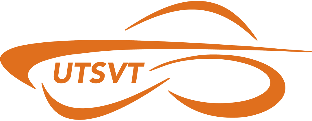 University of Texas Solar Vehicles Team Logo